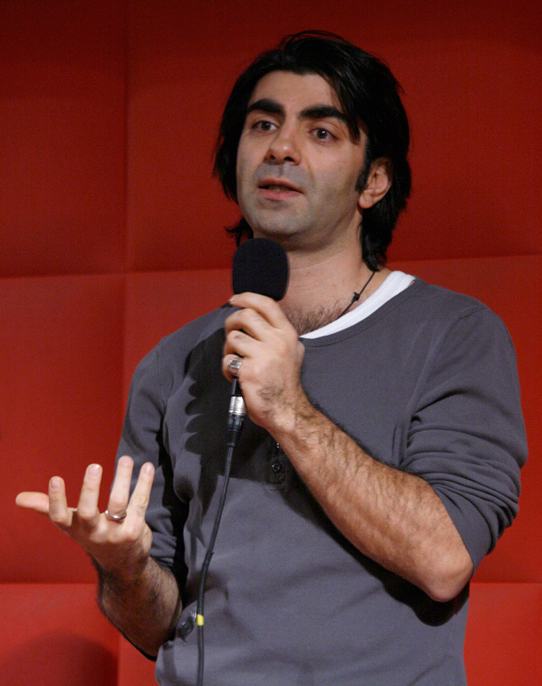 Fatih Akın, open discussion at the screening of Soul Kitchen in Vienna.